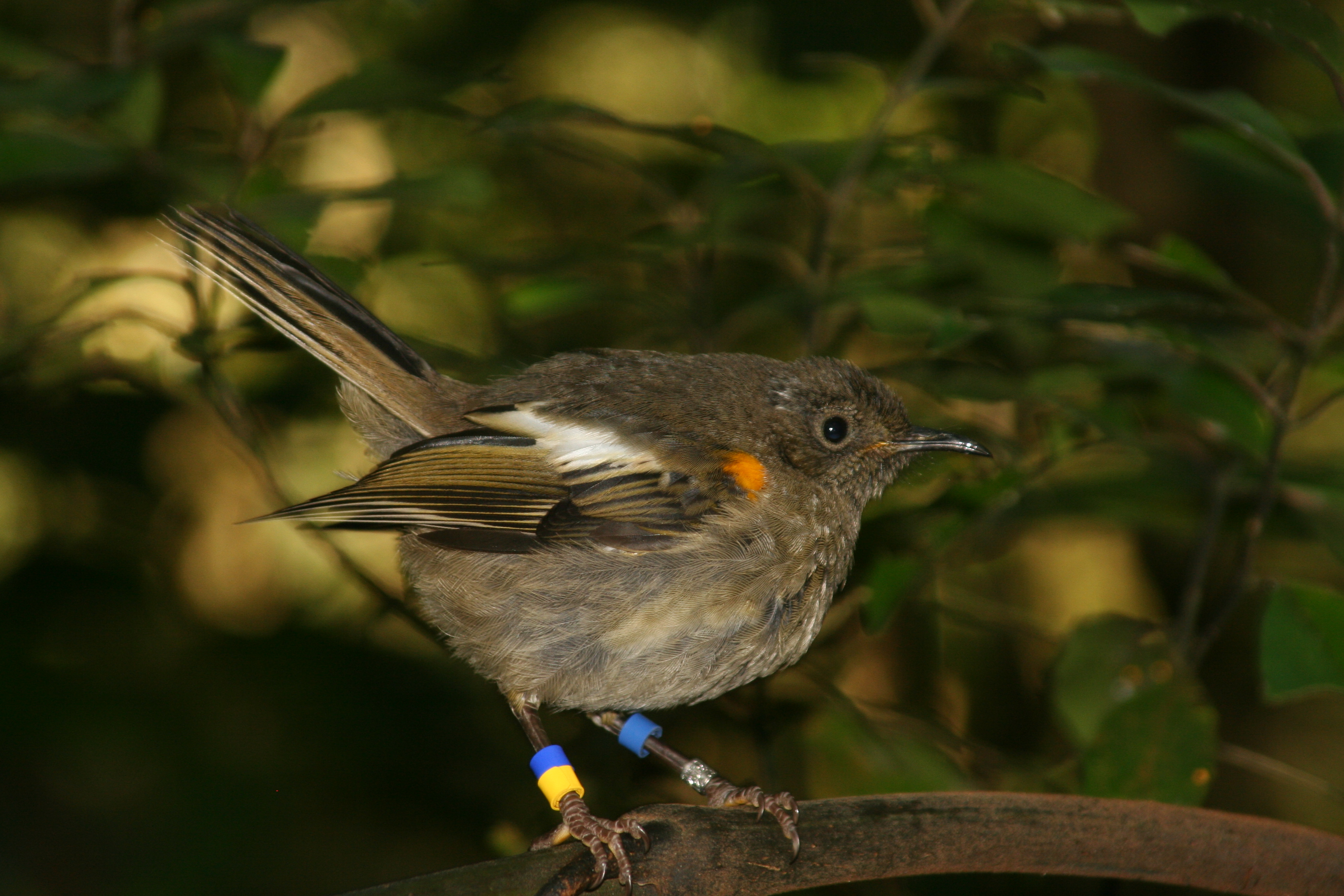 Stitchbird or Hihi (Notiomystis cincta) at Karori Wildlife Sanctuary